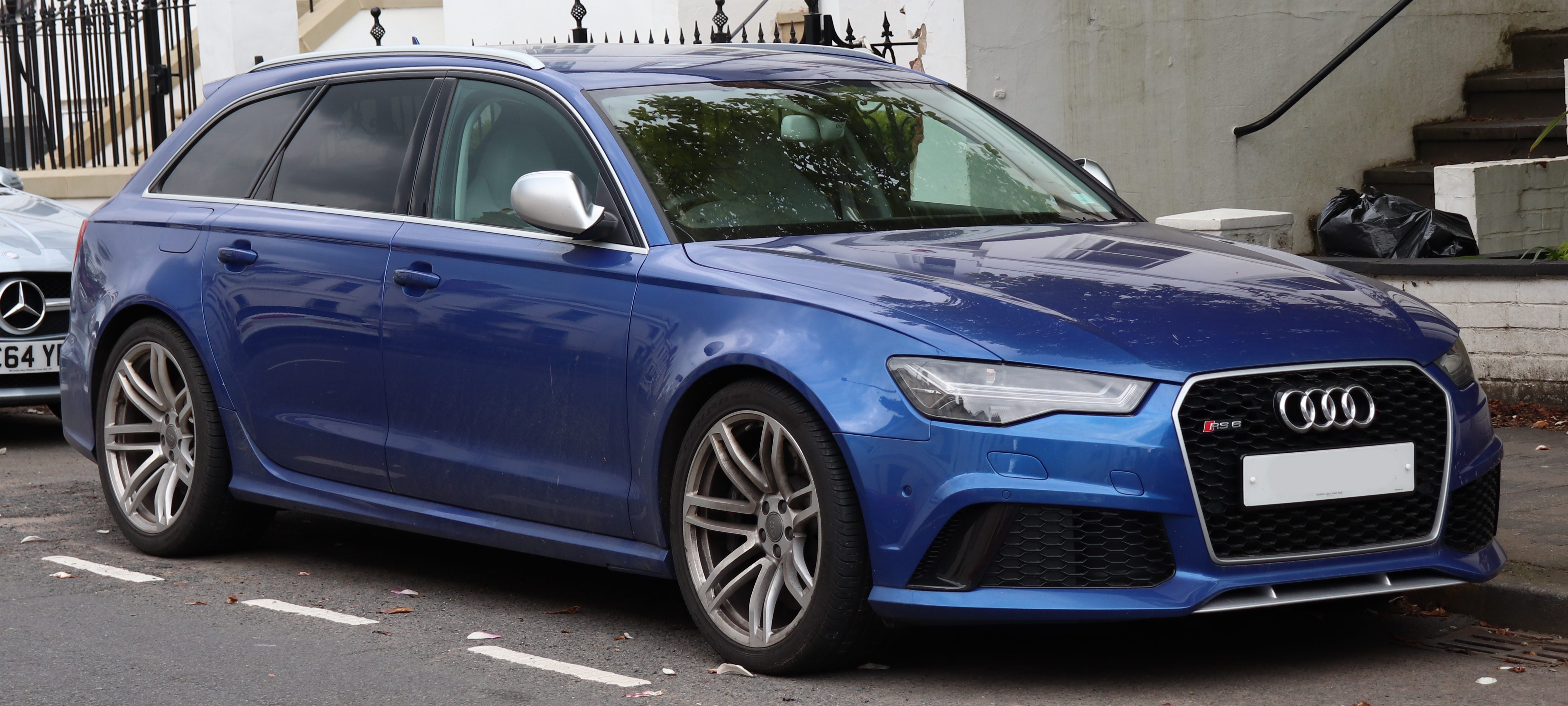 2015 Audi RS6 Avant TFSi Quattro Automatic 4.0 Front Taken in Leamington Spa